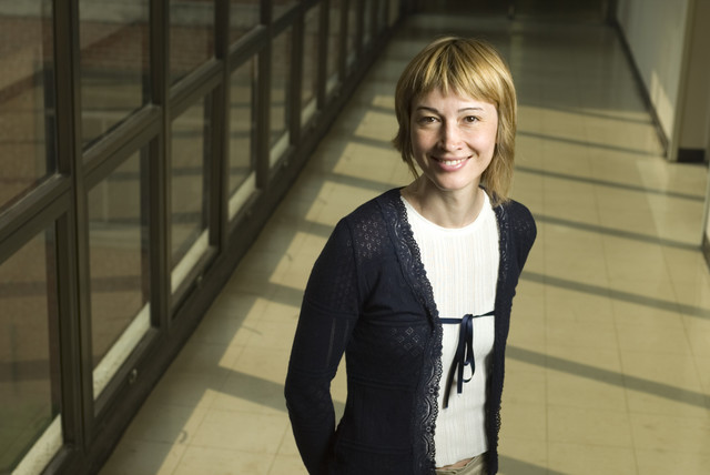 silvia ferrari sized